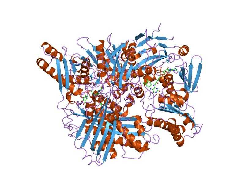 Cartoon representation of the molecular structure of protein registered with 1fiq code.